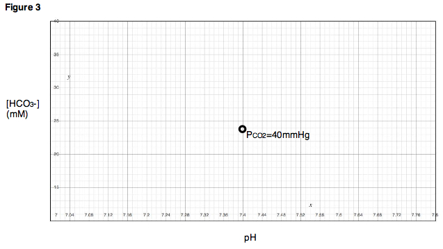 Description: Figure 3. Bicarbonate ion concentration and pH are determined at a specific partial pressure of carbon dioxide.